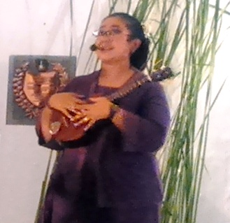 Endah Laras, performing in front of Radya Pustaka museum.